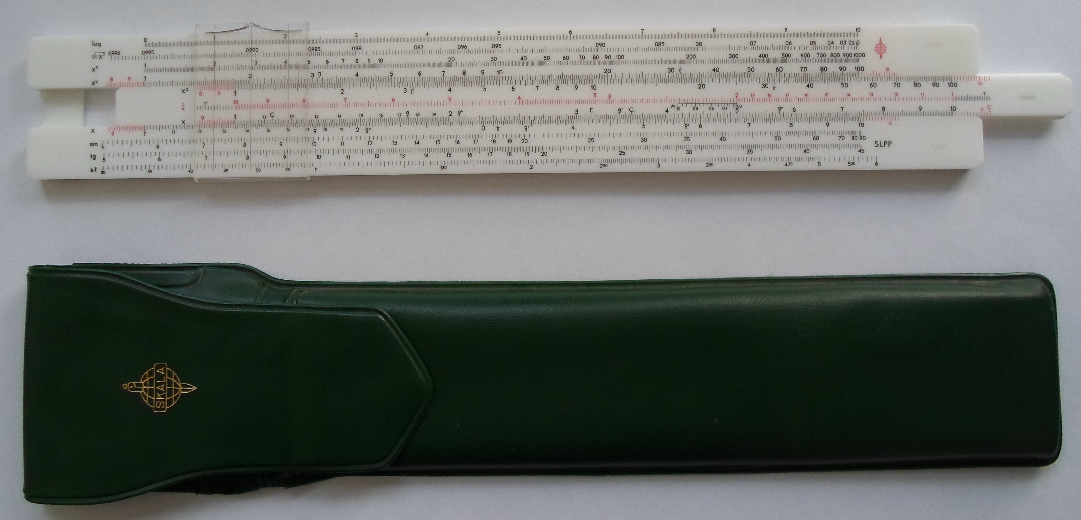 Slide rule